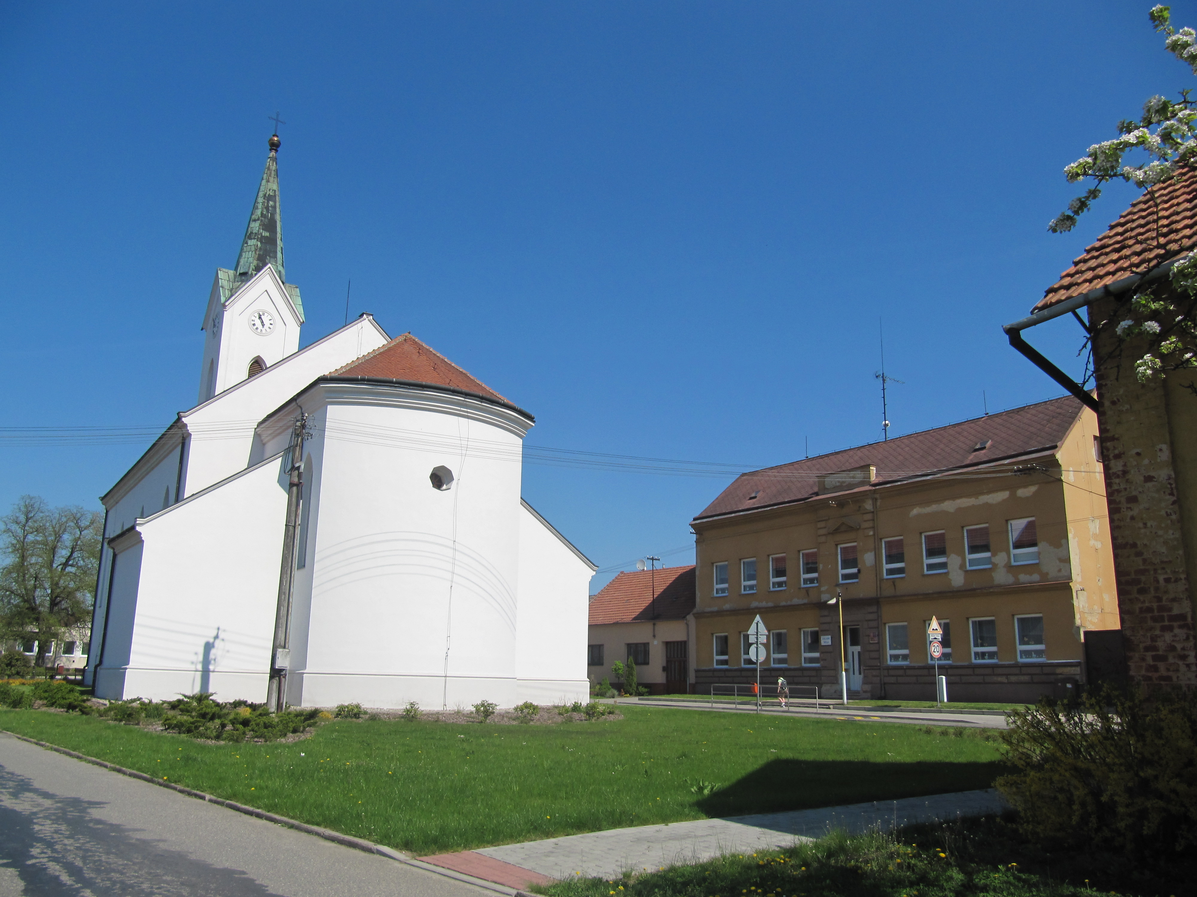 Huštěnovice in Uherské Hradiště District, Czech Republic. Saint Anne-church, backside and elementary school.